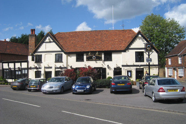 Hinds Head Public House, High Street, Bray Grade II listed